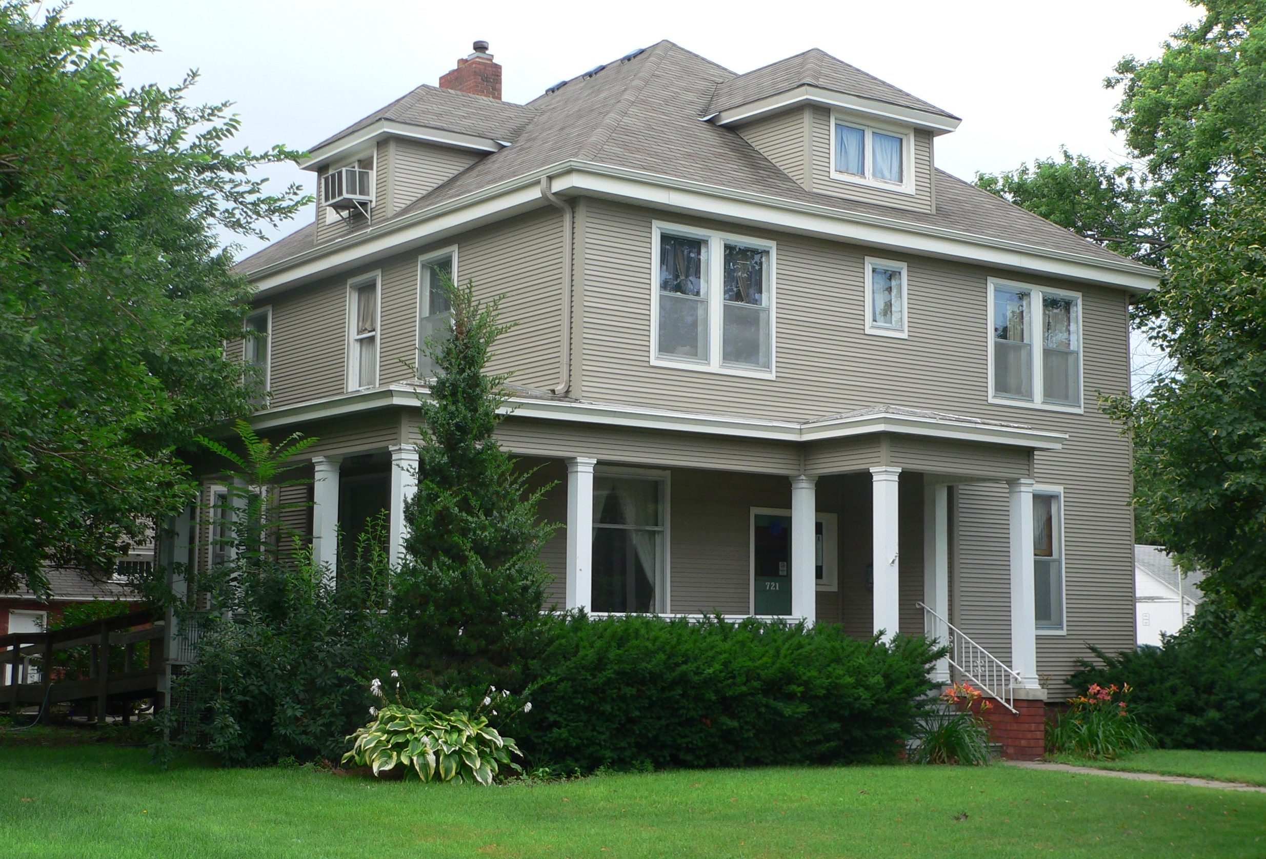 Oscar Roeser house, located at 721 W. Koenig Street in Grand Island, Nebraska; seen from the northeast. The house is listed in the National Register of Historic Places.